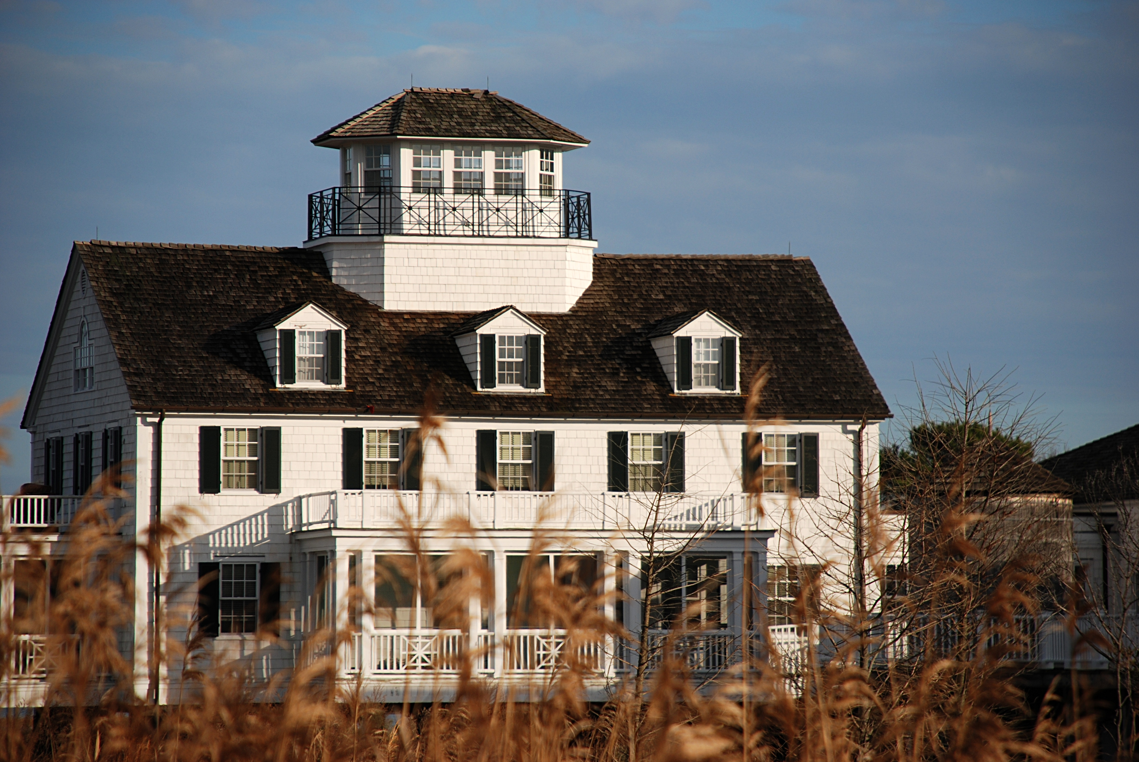 Picture of the Cobb Island Station in Oyster, VA